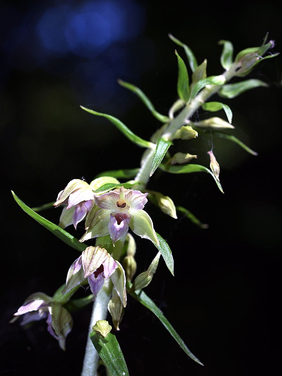 Epipactis leptochila - flowers